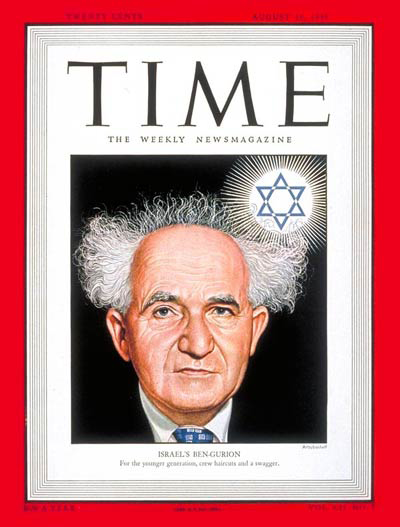 Time magazine, Volume 52 Issue 7. Front cover is an illustration of David Ben-Gurion.